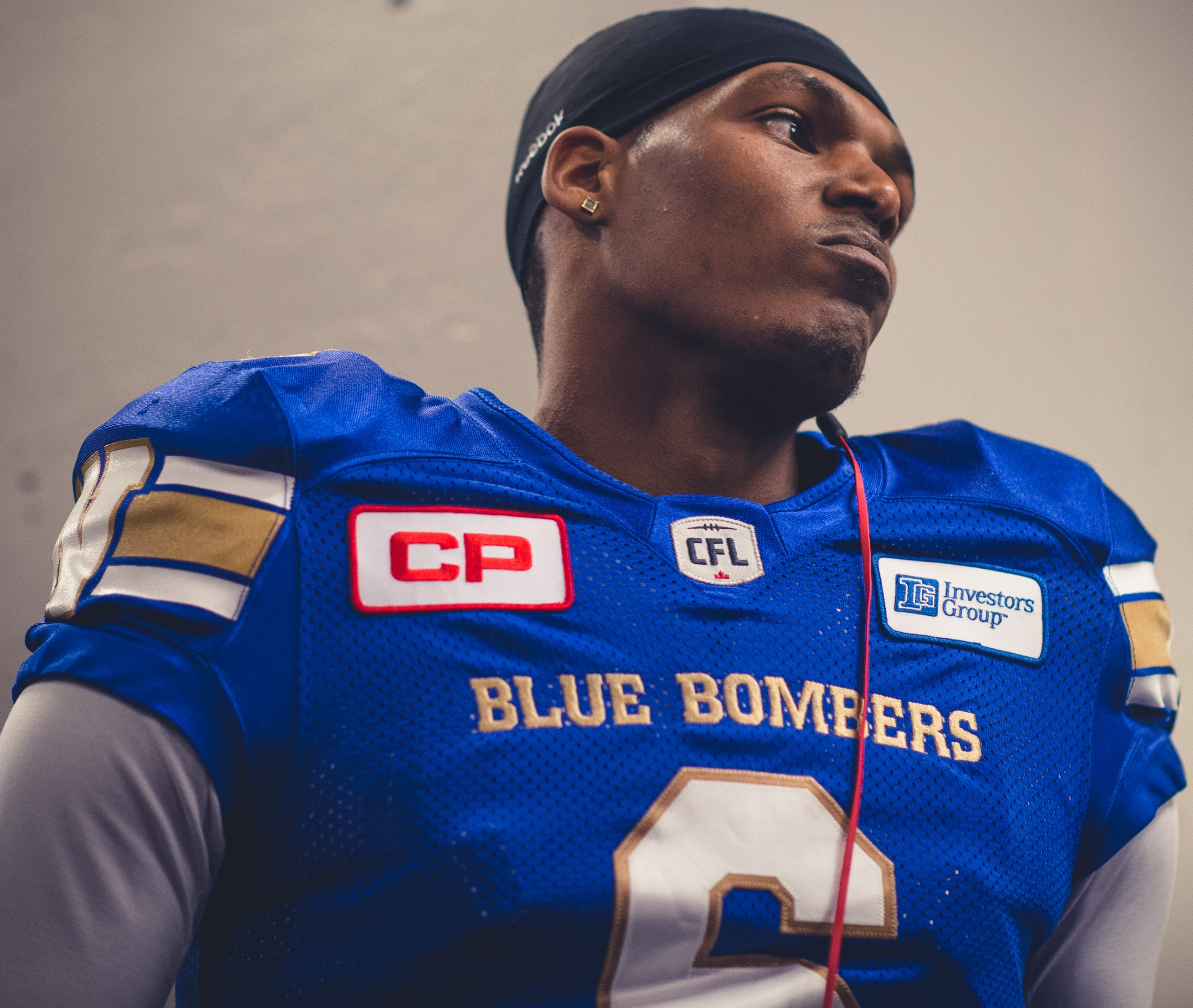 Dominique Davis (6) of the Winnipeg Blue Bombers during the pre-season game at TD Place in Ottawa, ON on Monday June 13, 2016. (Photo: Johany Jutras)